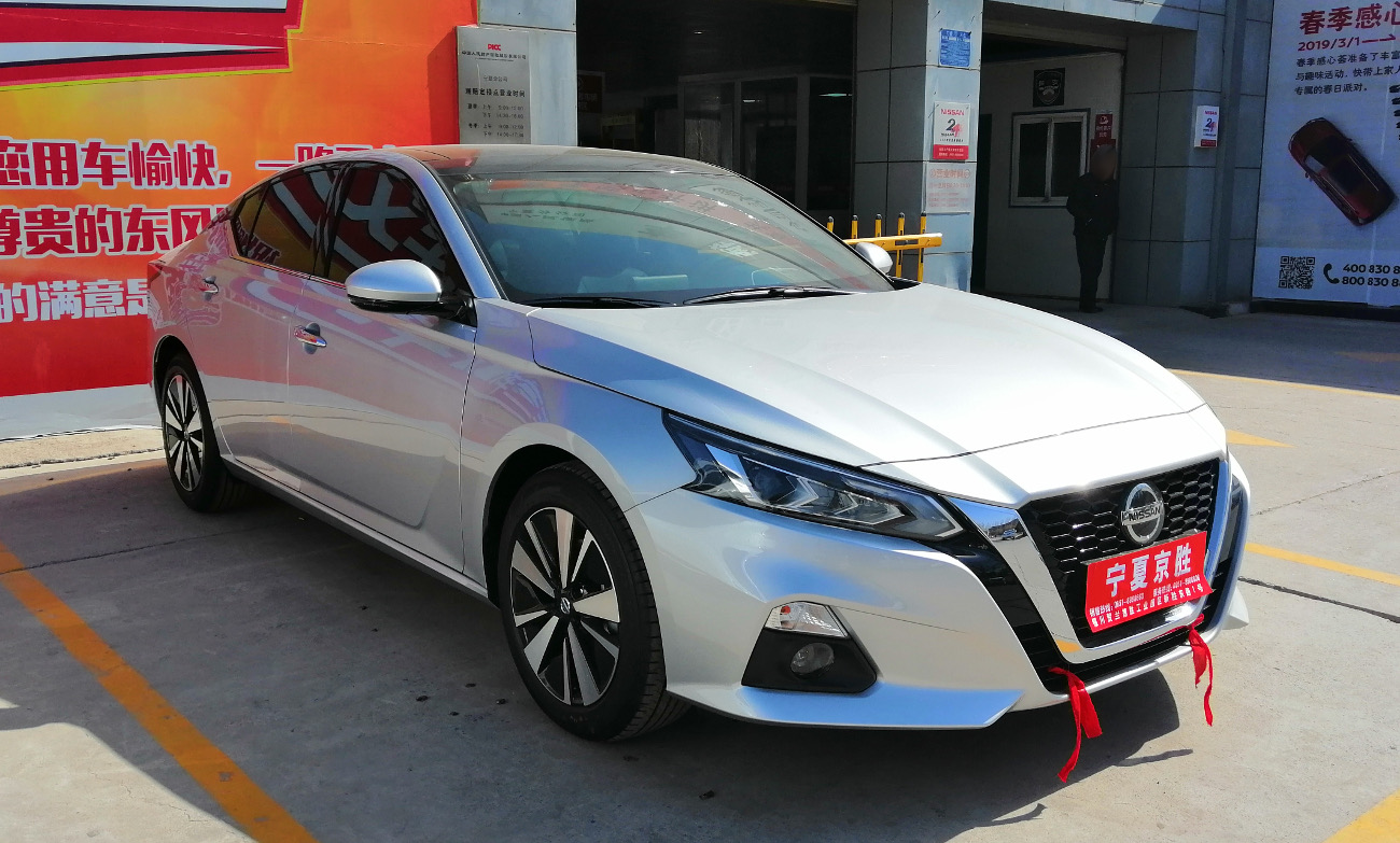 Nissan Altima L34 photographed in Yinchuan, Ningxia autonomous region, China.